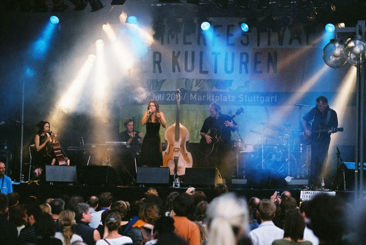 Singer Lhasa de Sela in concert in Stuttgart, Sommerfestival der Kulturen, 2005-07-21.